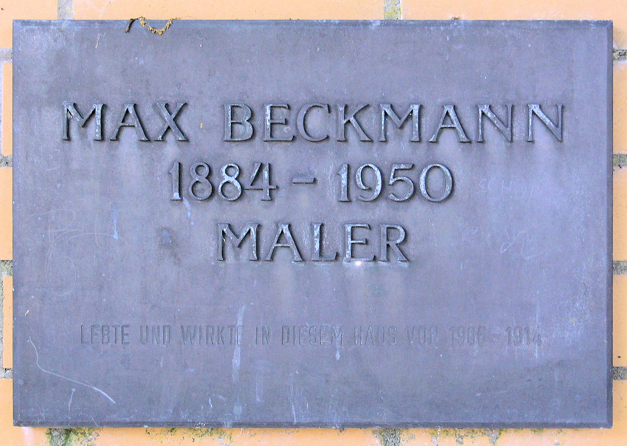 Memorial plaque, Max Beckmann, Ringstraße 17, Berlin-Hermsdorf, Germany Koordinate:52°36′47″N 13°17′38″E / 52.61306°N 13.29389°E